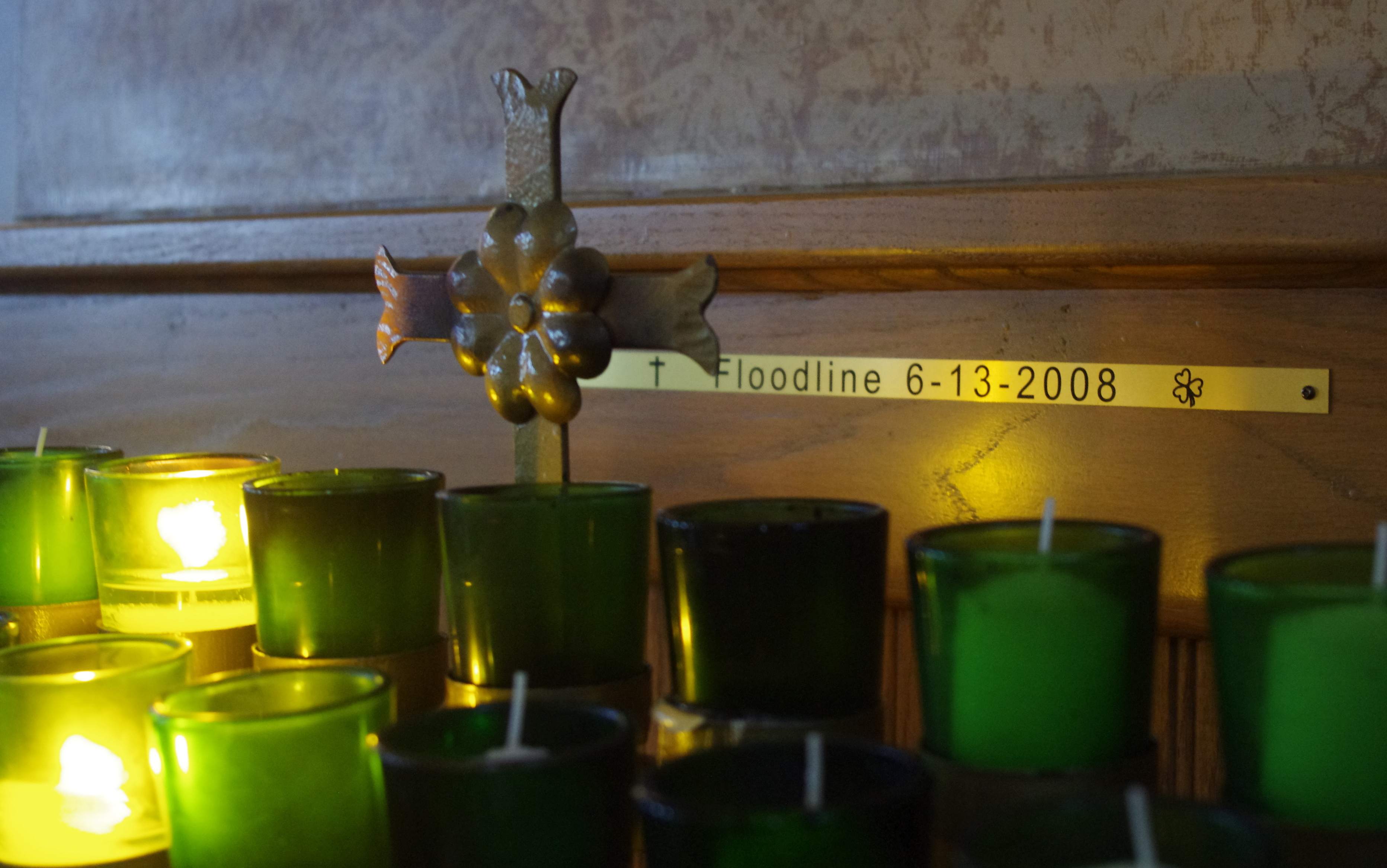 Saint Patrick Church (Cedar Rapids, Iowa) - votive candles with June 13, 2008 floodline